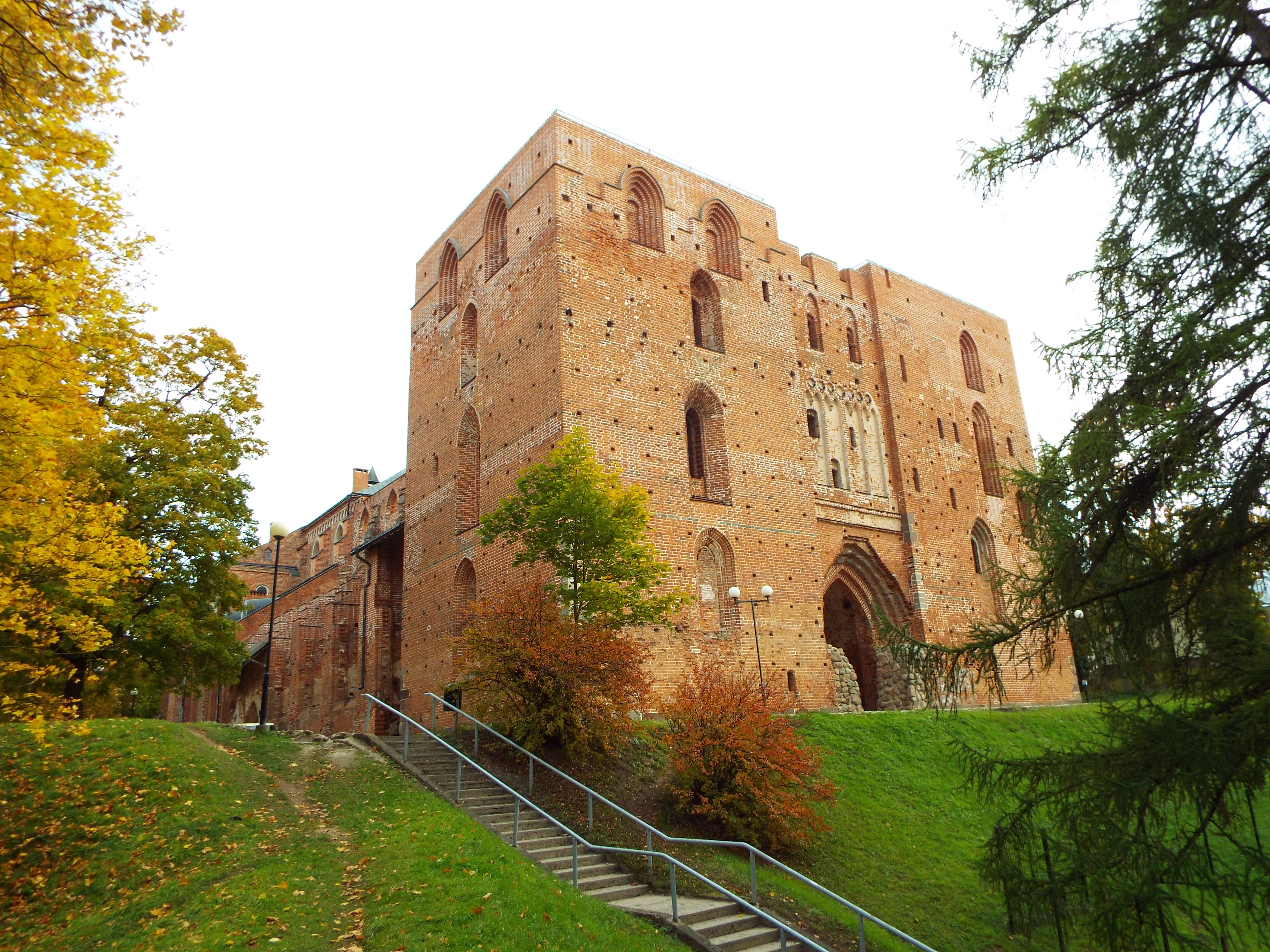 Tartu Cathedral in city of Tartu